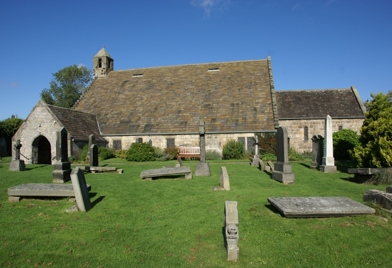 St Fillan's Church, Aberdour, Fife, Scotland. View from the south.